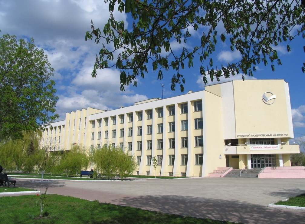 Education building No. 3 of the Oryol State University, unofficially known as "Polish building".